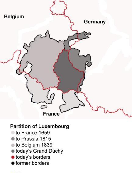 Map showing the partition of Luxembourg through the centuries.